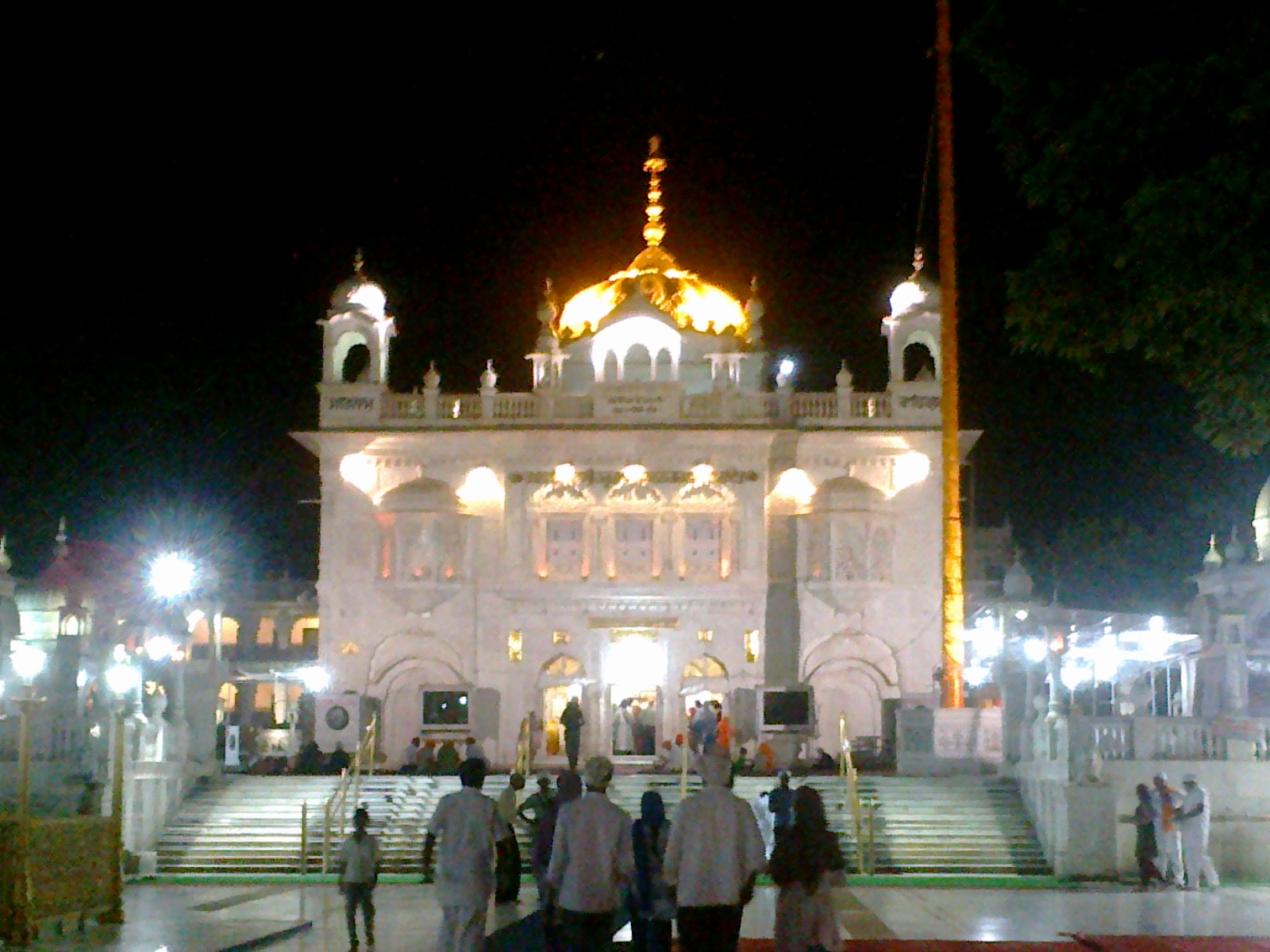 Shri Hazur Sahib, it is a holy place for sikhs in maharashtra